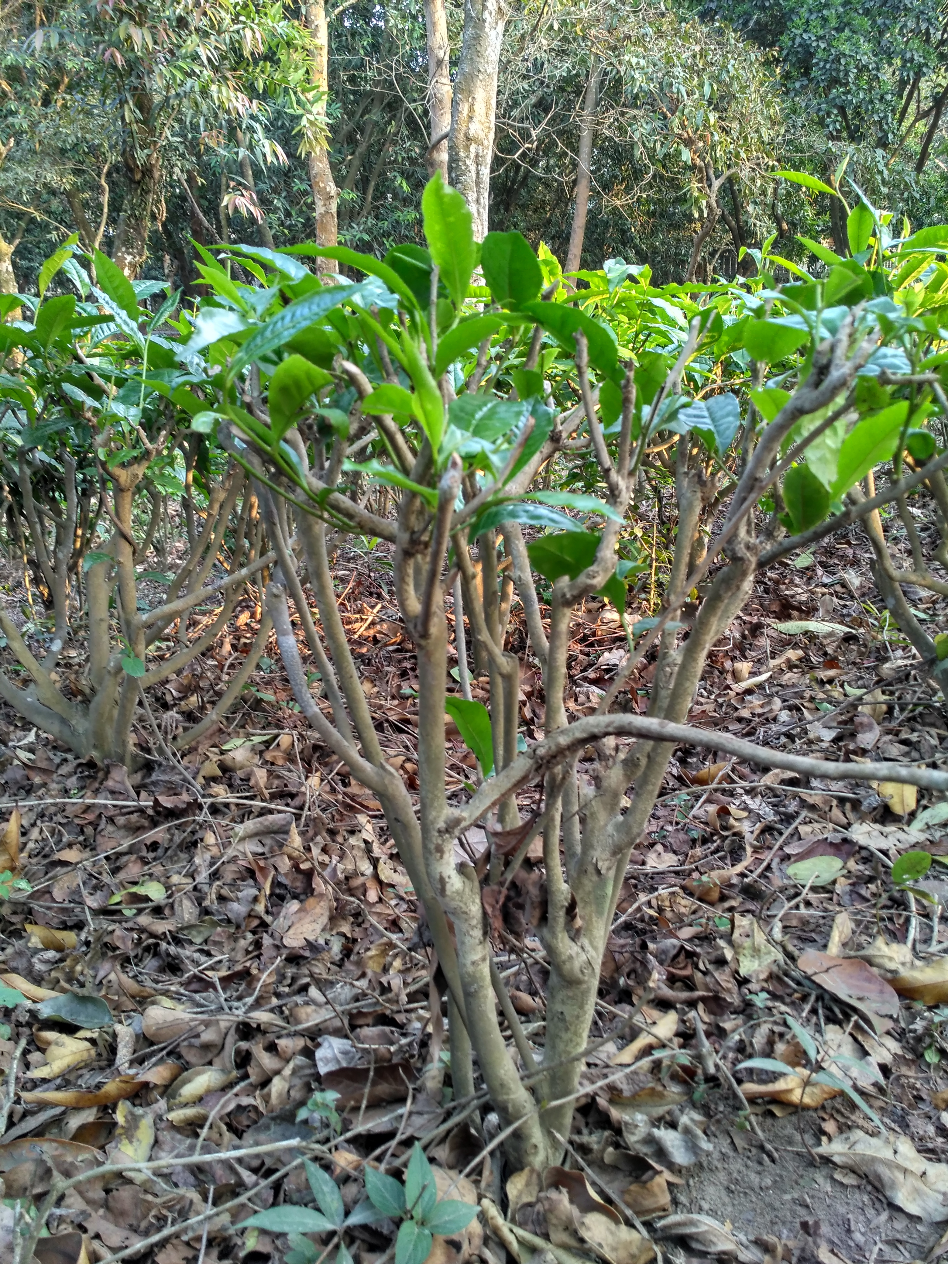 A tea tree at a tea garden in Tetulia Upazila, Panchagarh district, Bangladesh. (01.03.2019).